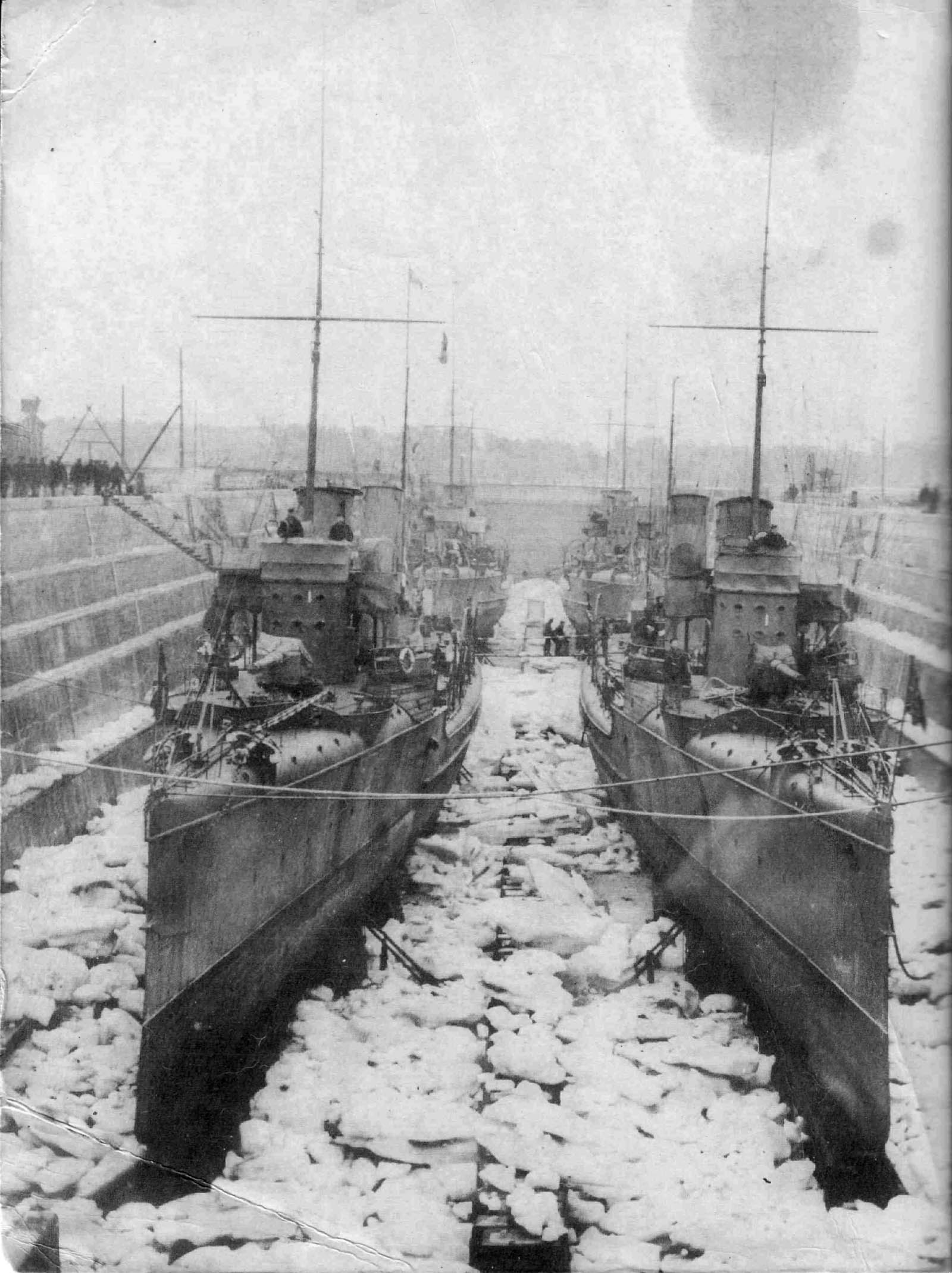 Imperial Russian destroyer Emir Bukharskiy and Moskvityanin.